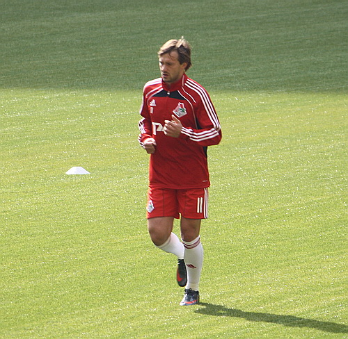 Dmitry Sychev